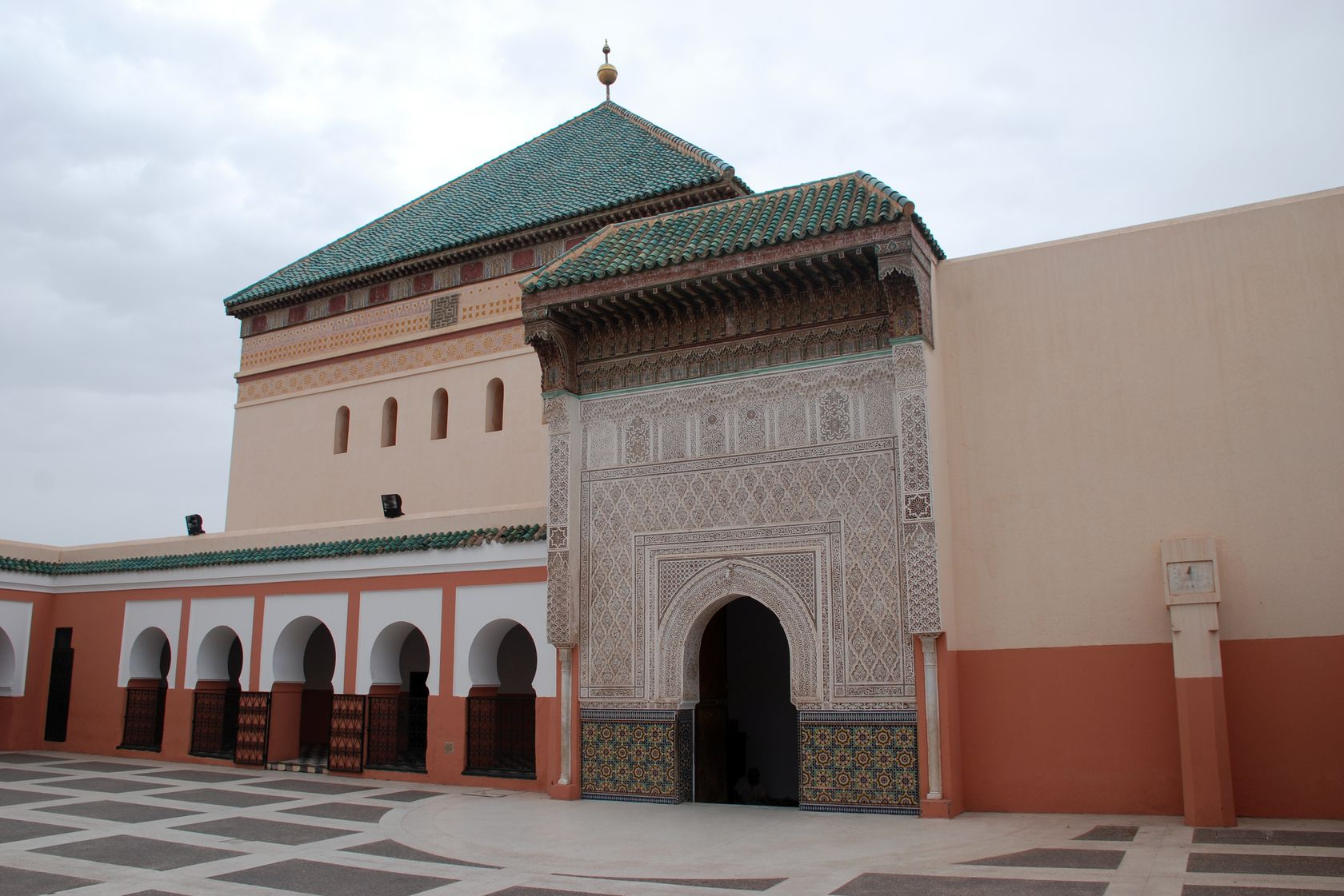 Marrakech, tomb of Abu al-Abbas as-Sabti